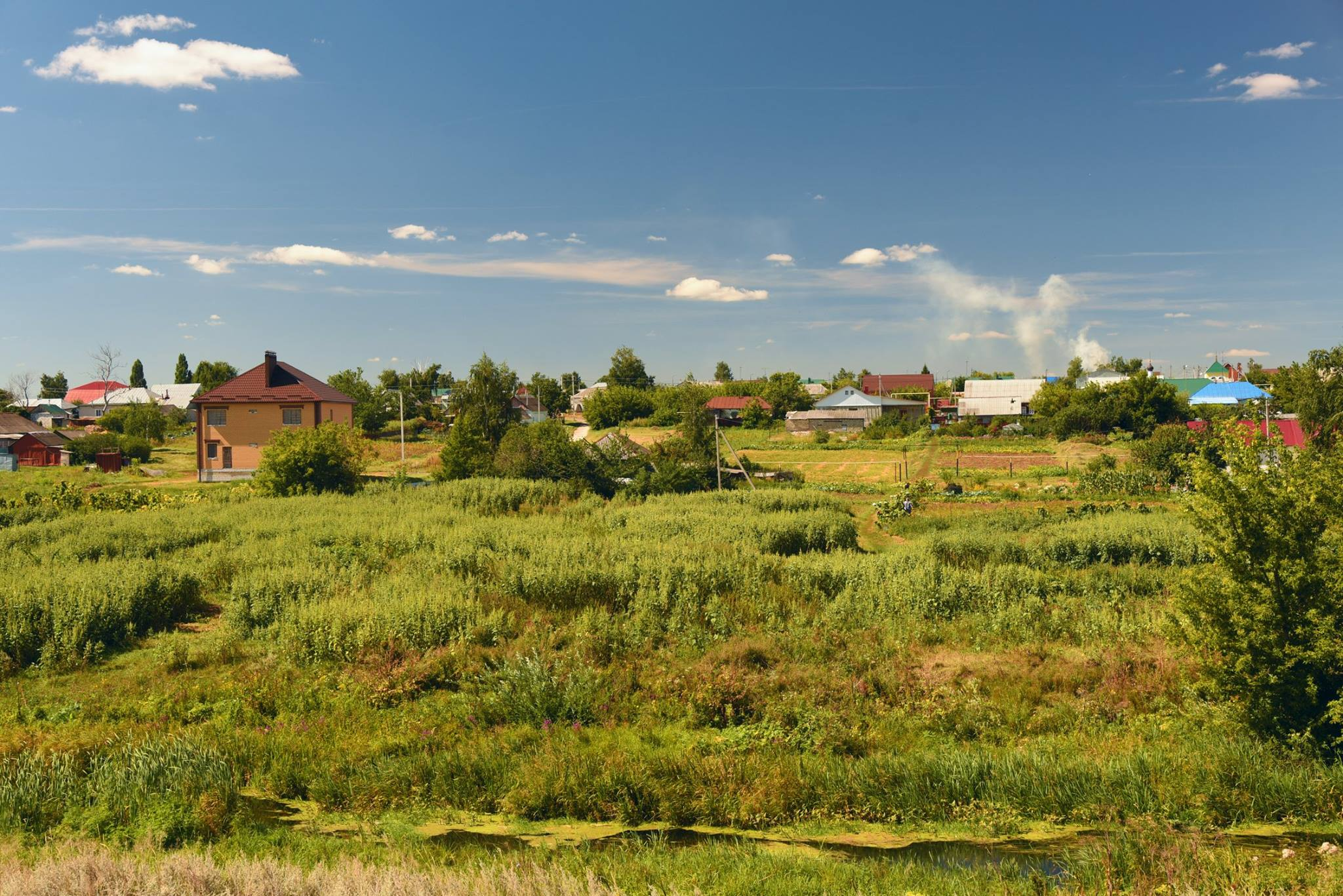 view of Bolshoy Samovets village from the hill